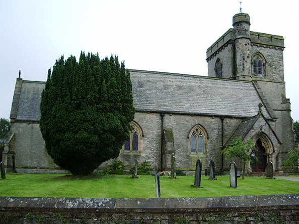 St Peter's parish church, Quernmore, Lancashire, seen from the northeast